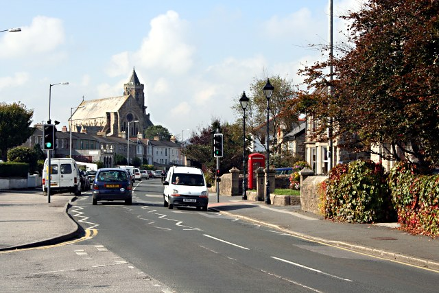 Commercial Road Commercial road, along the southern side of Copperhouse Pool became built up in the early years of the 20th century joining the settlements surrounding the Copperhouse Foundry to the east and Harvey's Foundry to the west. Dominating the skyline is St Elwyn's Church.